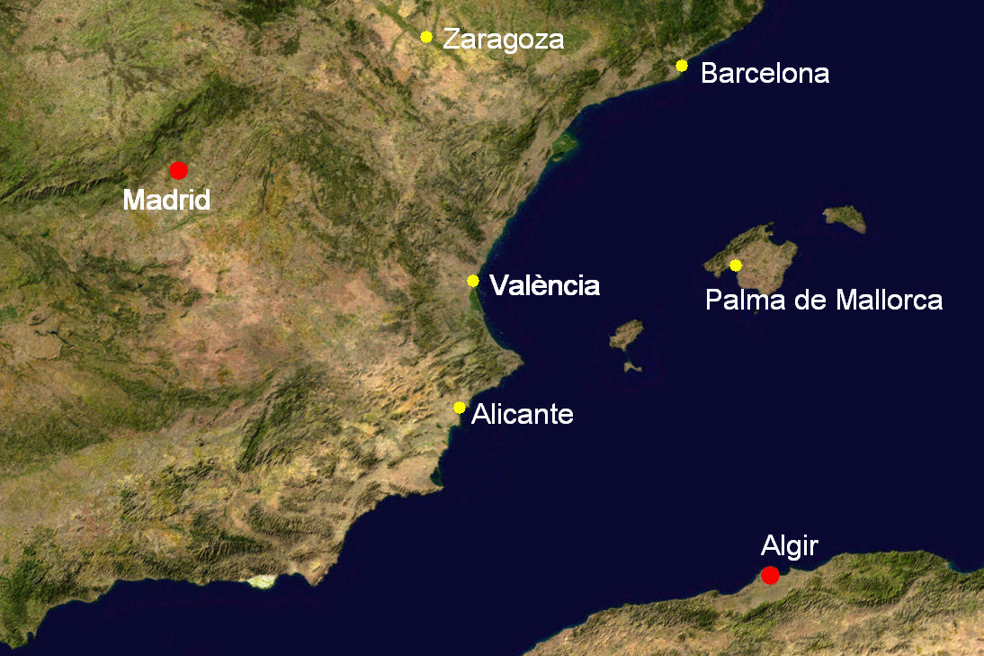 Valencia, Spain and the surrounding major cities.